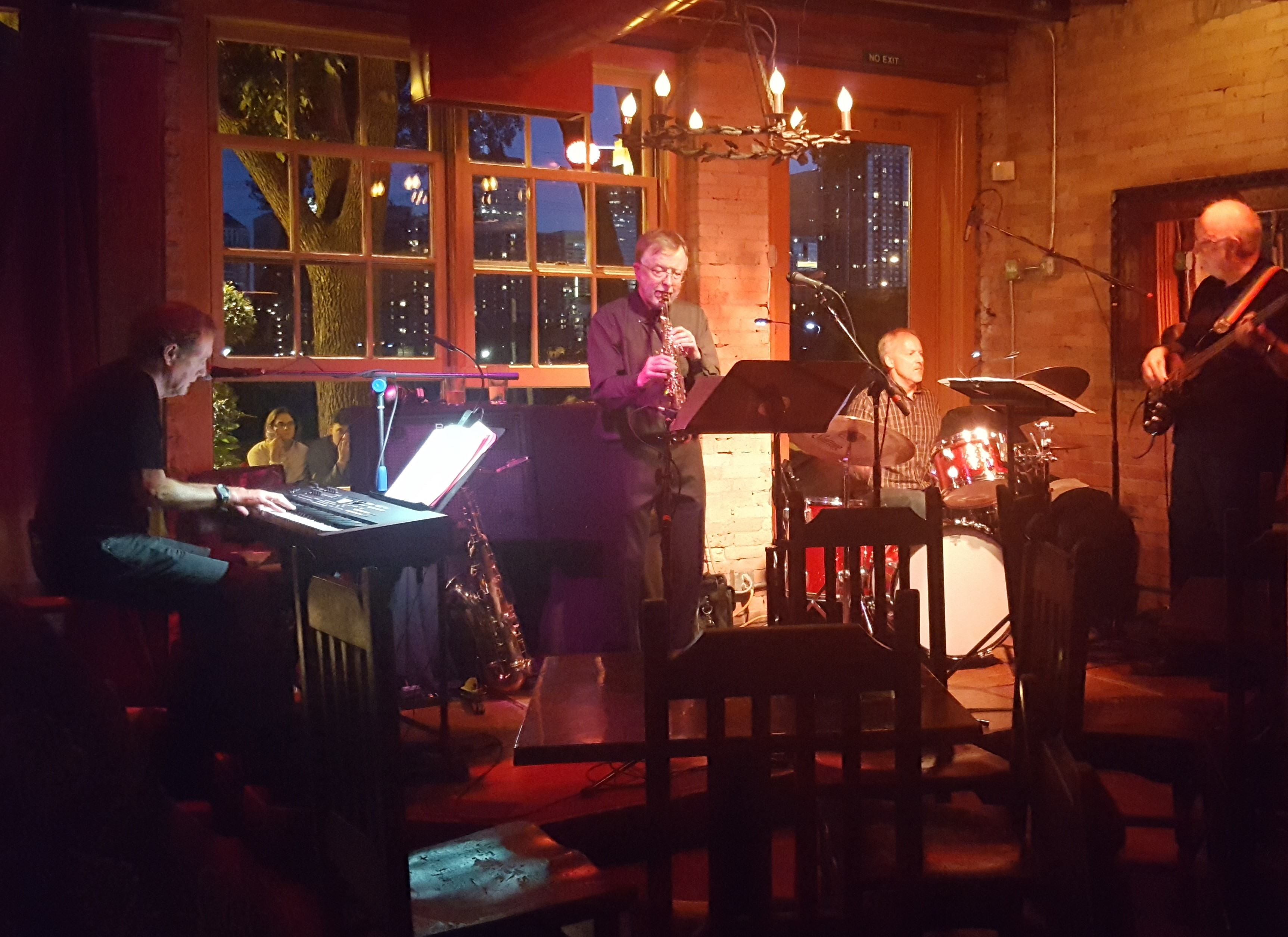 The Larry McDonough Quartet performs at the Aster Cafe in Minneapolis, Minnesota on July 1, 2018, featuring Richard Terrill on sax (center) and Larry McDonough on piano (far left).